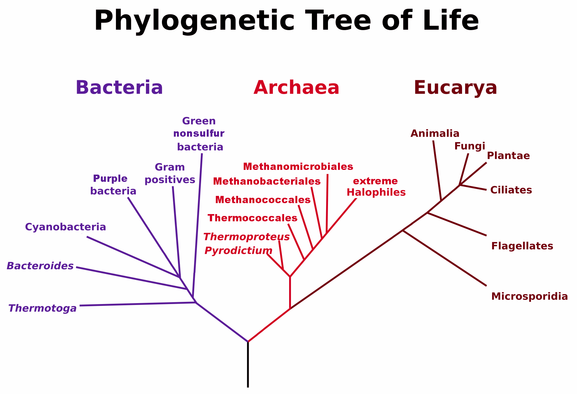 Universal phylogenetic tree in rooted form, showing the three domains. According to C. Woese et al. 1990